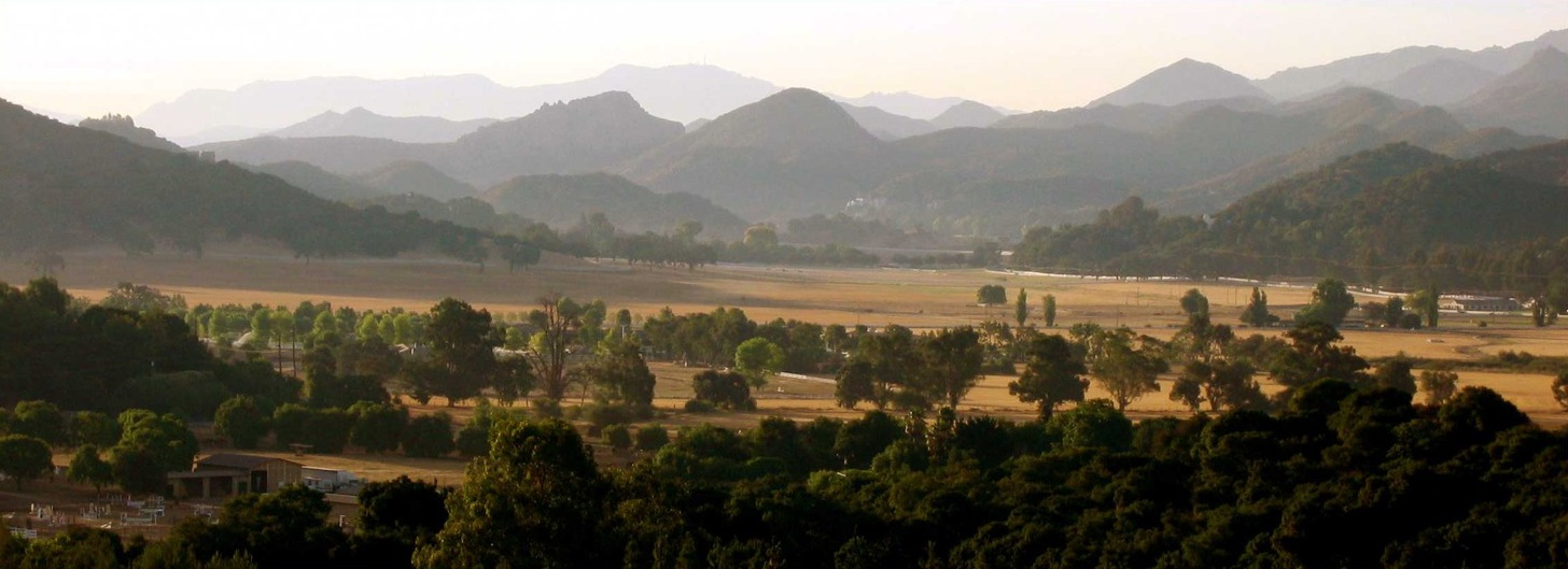 Dos Vientos Ranch — in Hidden Valley and the Santa Monica Mountains, Ventura County, California. Behind the hills of the Conejo Valley, with Newbury Park and Thousand Oaks, lies Hidden Valley. It's full of horse ranches and is populated with the rich and famous (Tom Selleck and Sophia Loren). Bicyclists also frequently ride through here. "I commute to work through this valley every day to avoid the traffic on the Ventura Highway. This is where the Target World Challenge golf tournament is held each year at Sherwood Country Club. It's a beautiful drive and is a very popular spot for film crews (just about every week there is something being filmed back here)."